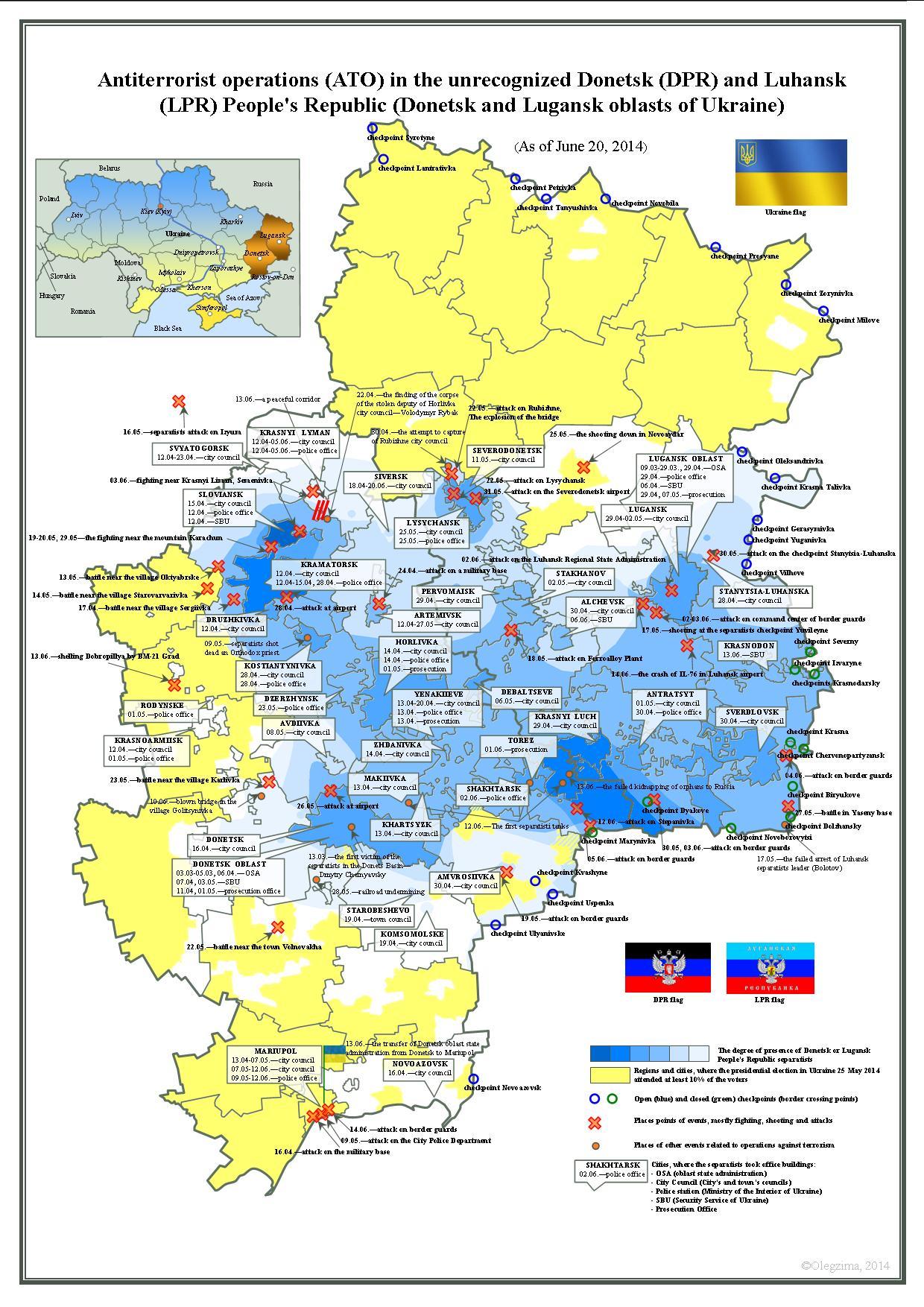 Map antiterrorist operations in the breakaway Donetsk and Lugansk National Republic (Donetsk and Luhansk oblasts of Ukraine)